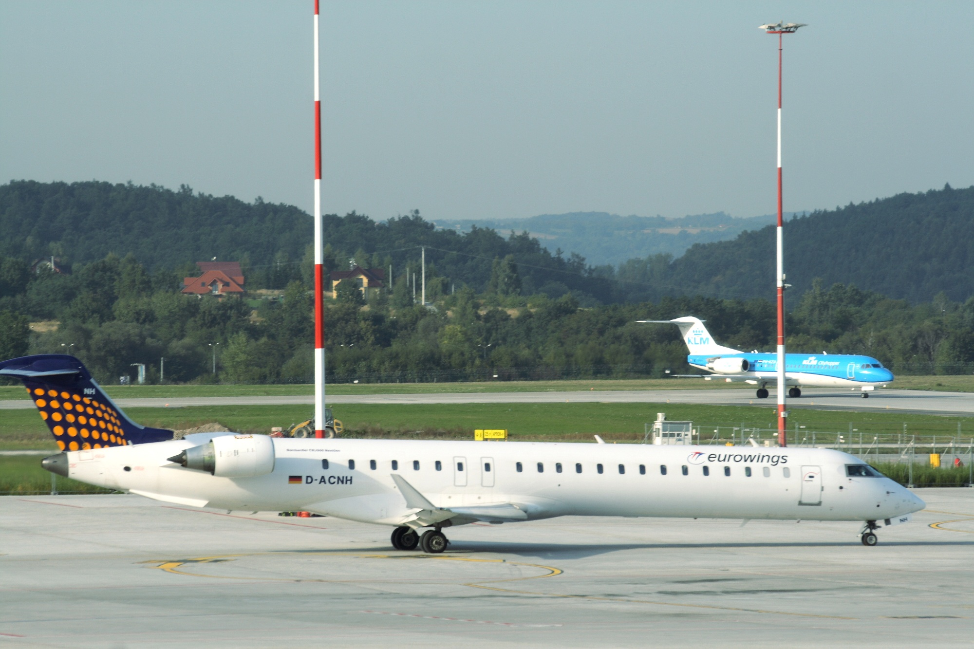 Eurowings in KRK airport (Krakow, Poland)